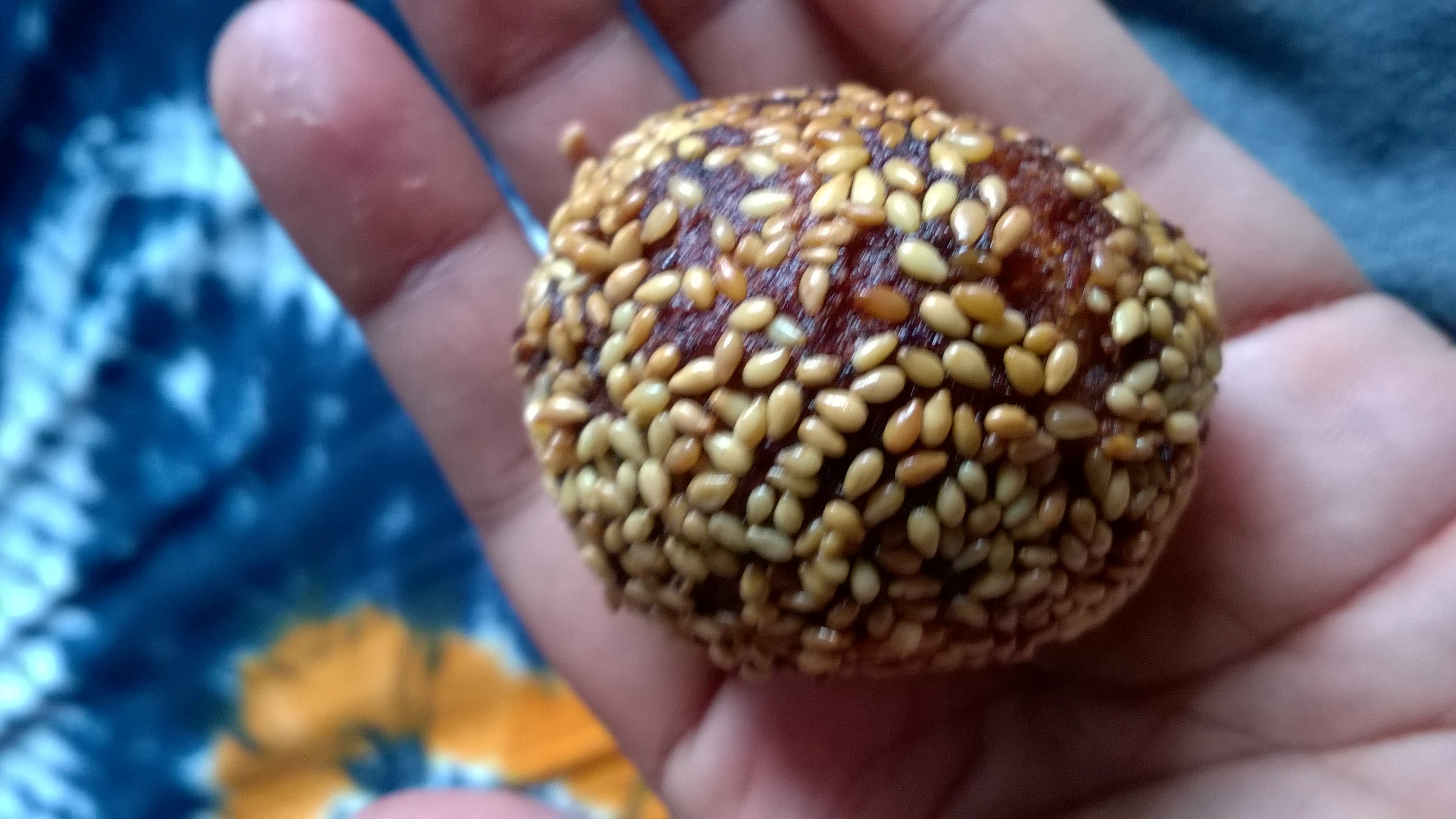 this is typical india food only available in some state of india . Generally this sweet is not always available only made in some particular months. filled with khoa a milk product